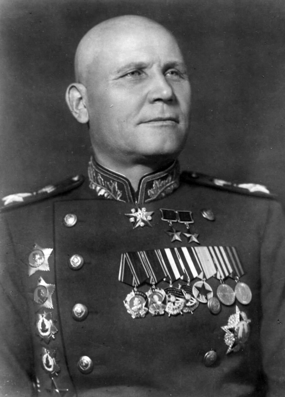 Marshal of the Soviet Union Ivan Stepanovich Konev